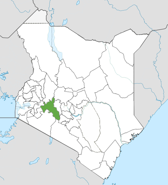 Nakuru County location map